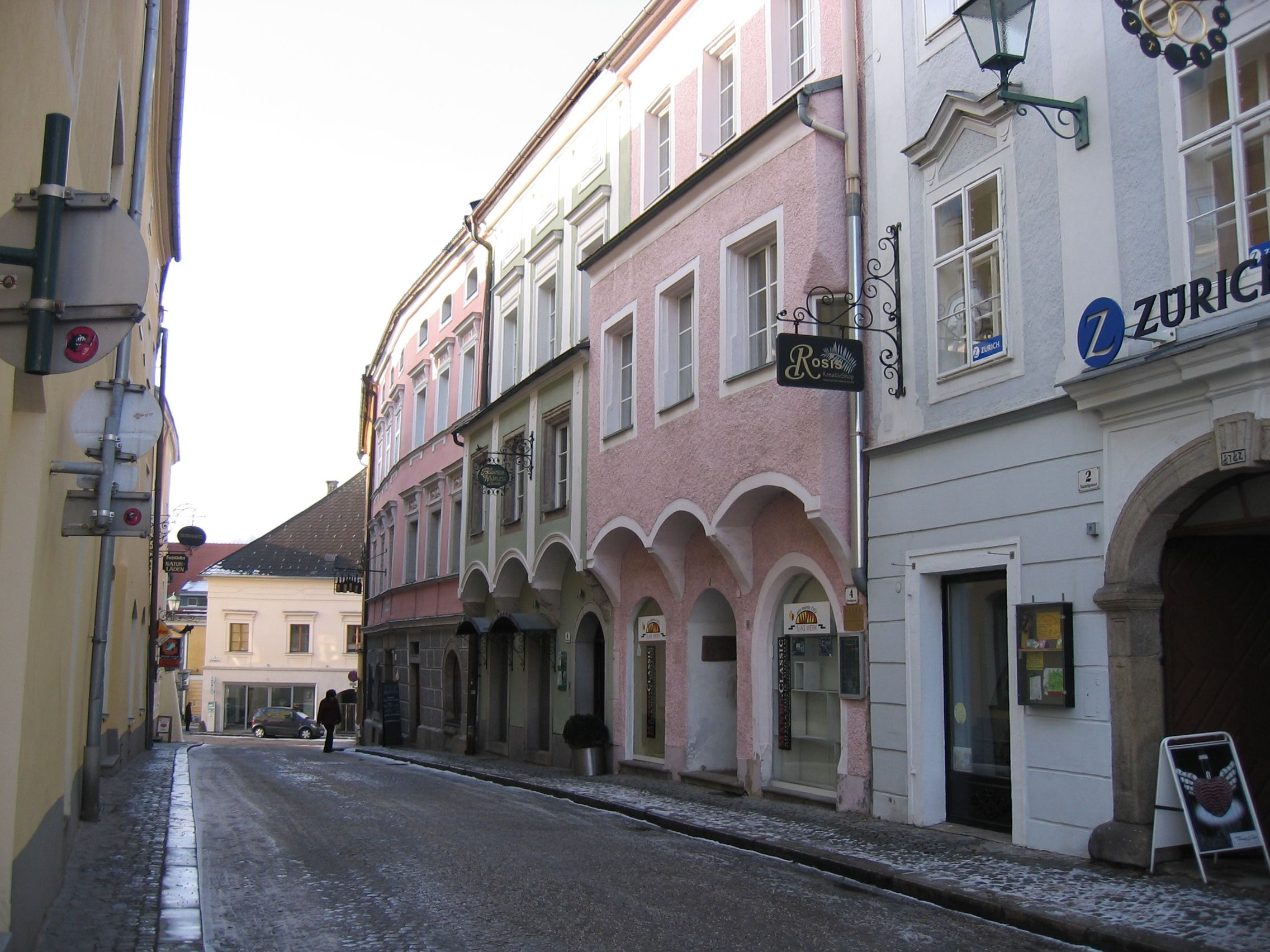 Samtgasse Freistadt